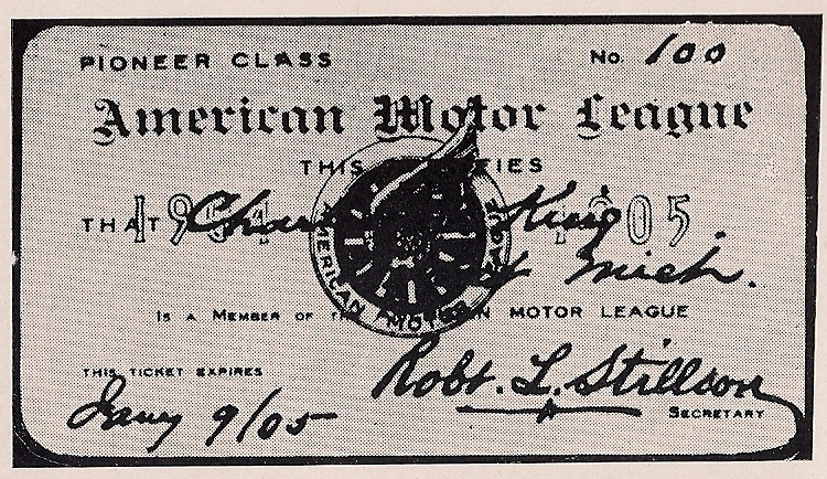 American Motor League 1904 - 1905 card. First card each year was issued to Charles Brady King